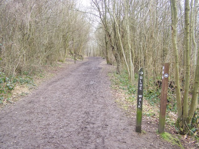 North Downs Way in Trosley Country Park The long distance path goes through the park, leading on to Whitehorse Wood. The Park also has several signed circular trails through the park, leading back to the Visitor Centre and carpark.